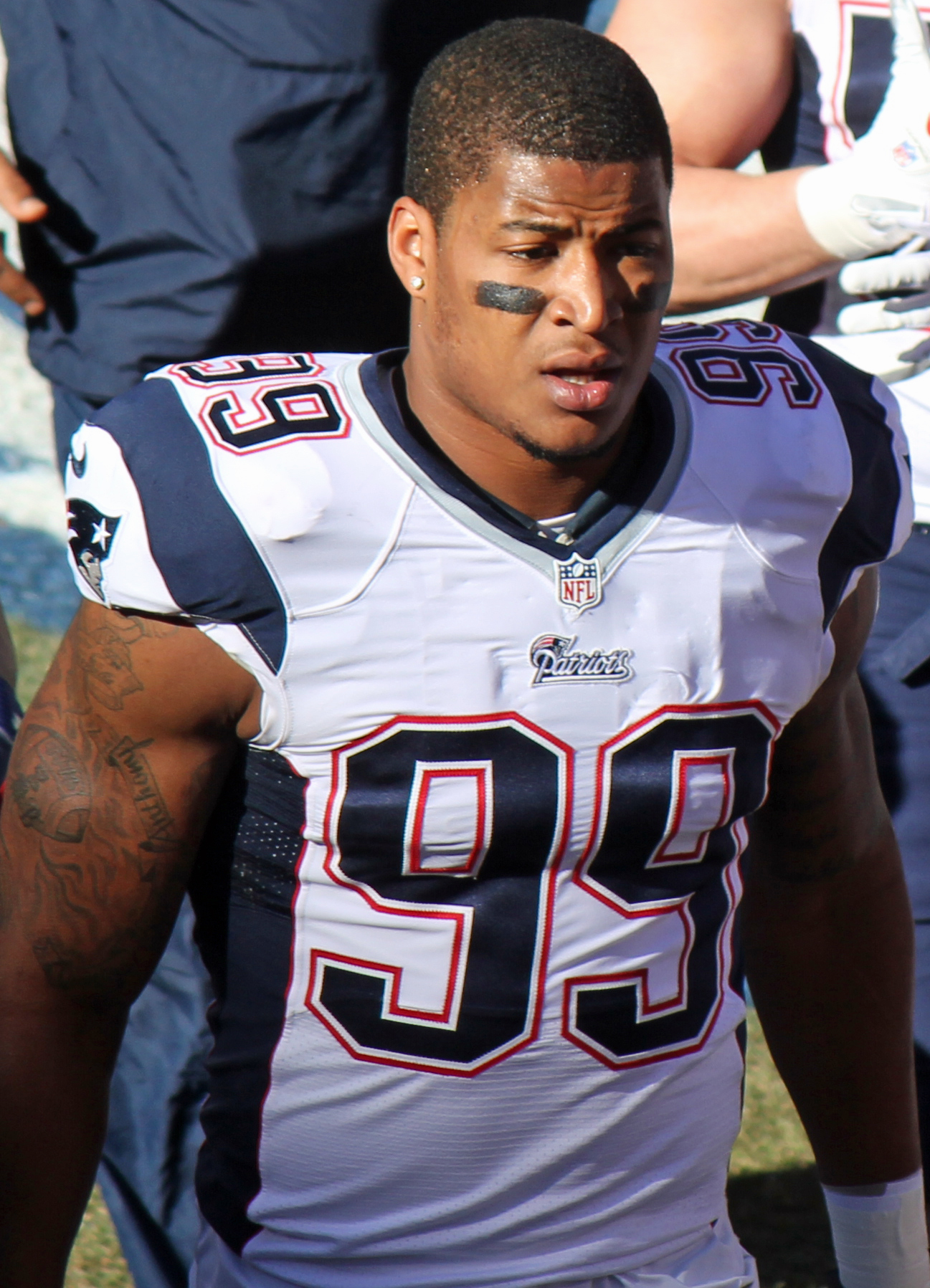 Michael Buchanan, a player on the National Football League.